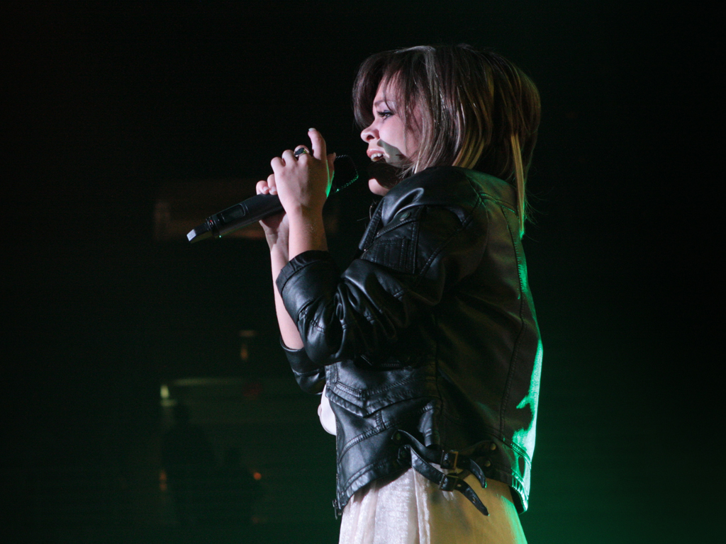 Artista Puertorriqueña